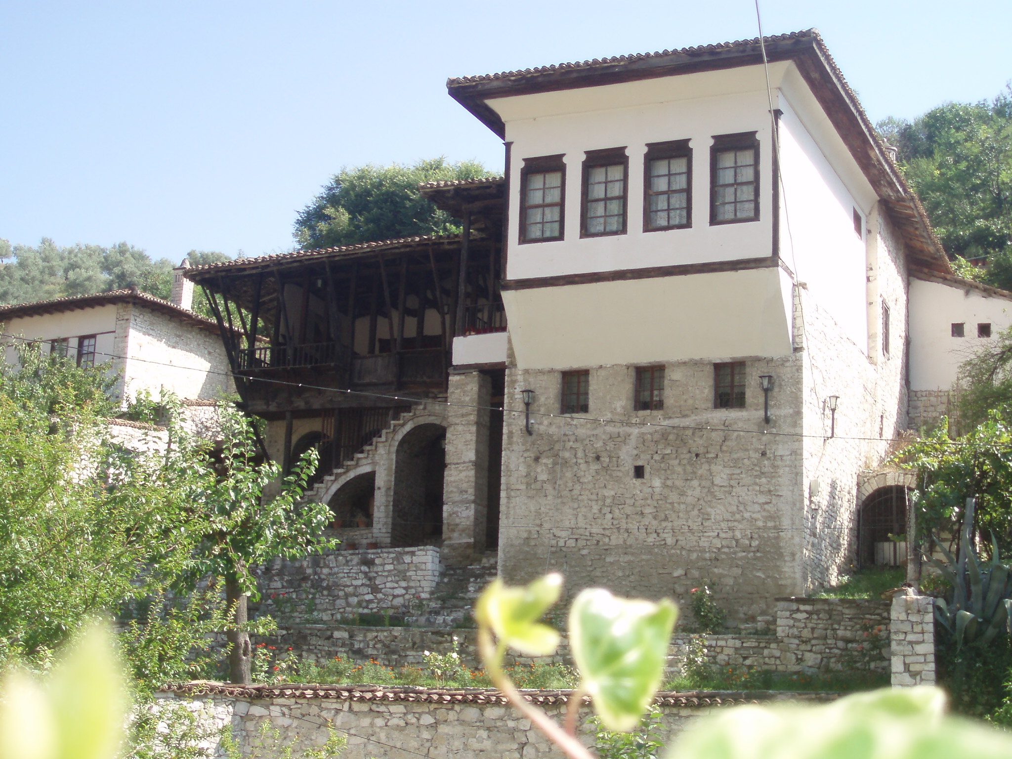 the ethnographic museum of Berati, Albania